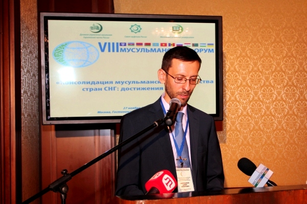 Damir Khairetdinov